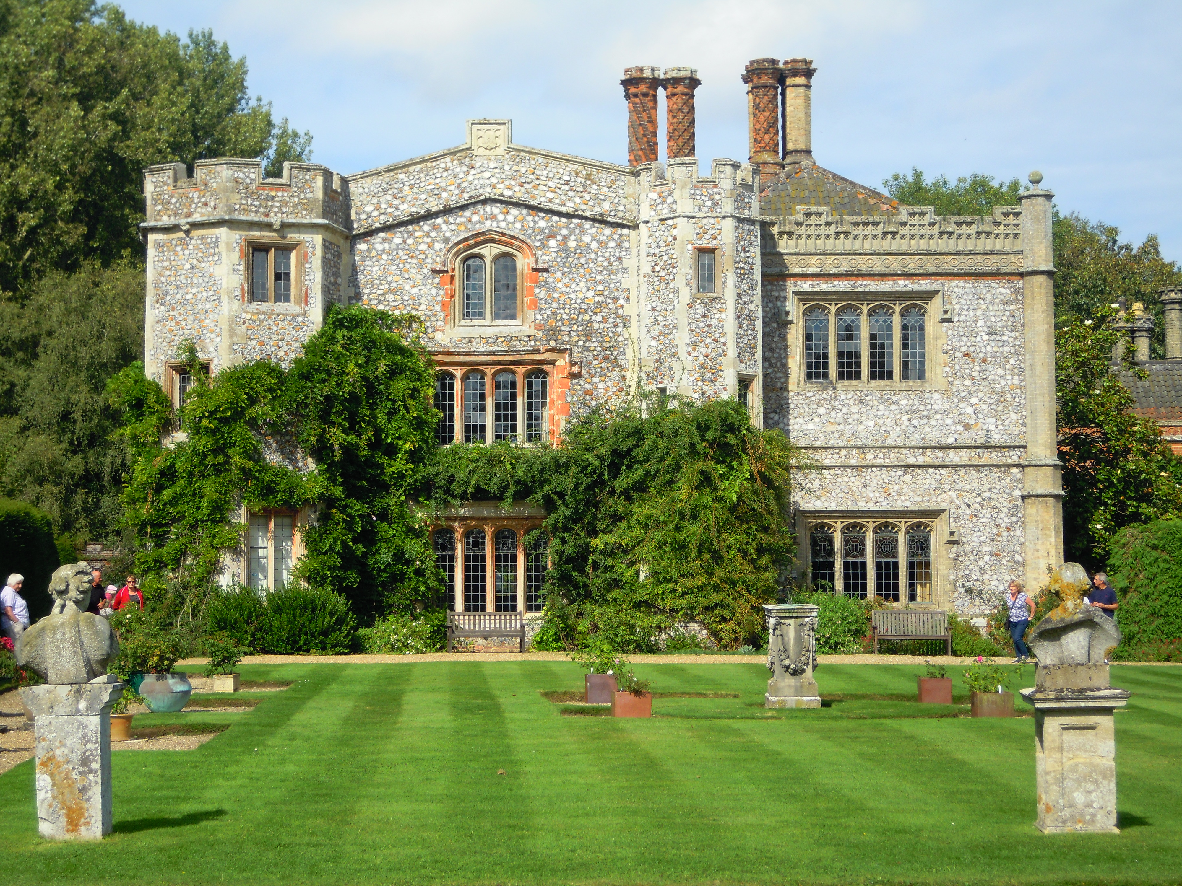 The south facing façade of Mannington Hall, Norfolk, United Kingdom.